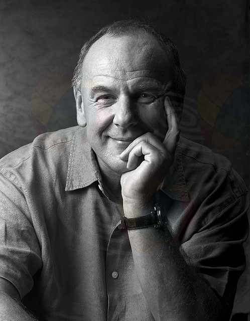 Wilfried R.Vanchonacker